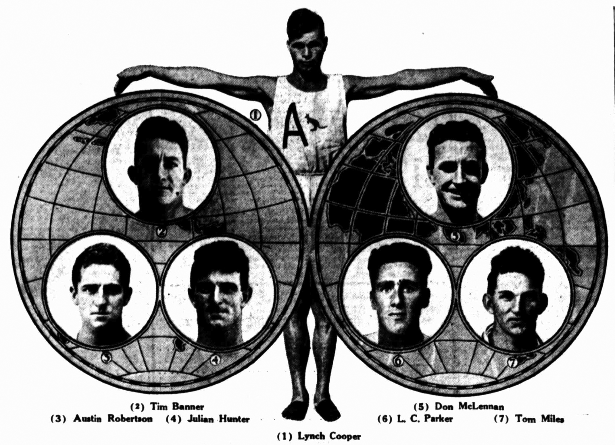 Graphic depicting Lynch Cooper and his challengers as world professional sprinter